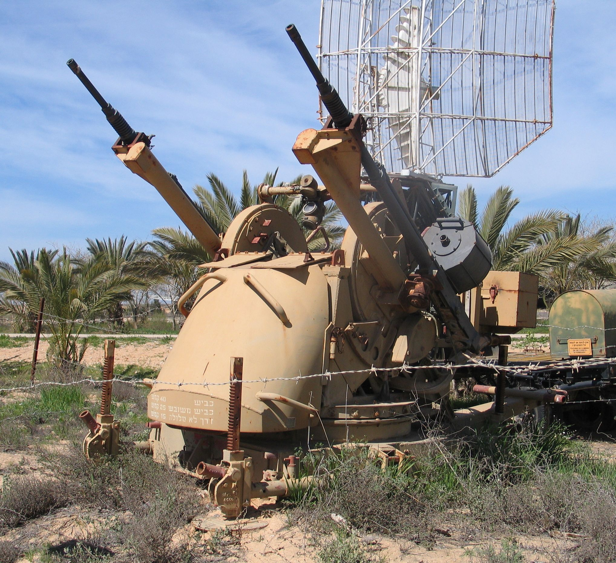 TCM-20 2x20mm AA autocannon at Muzeyon Heyl ha-Avir, Hatzerim, Israel.